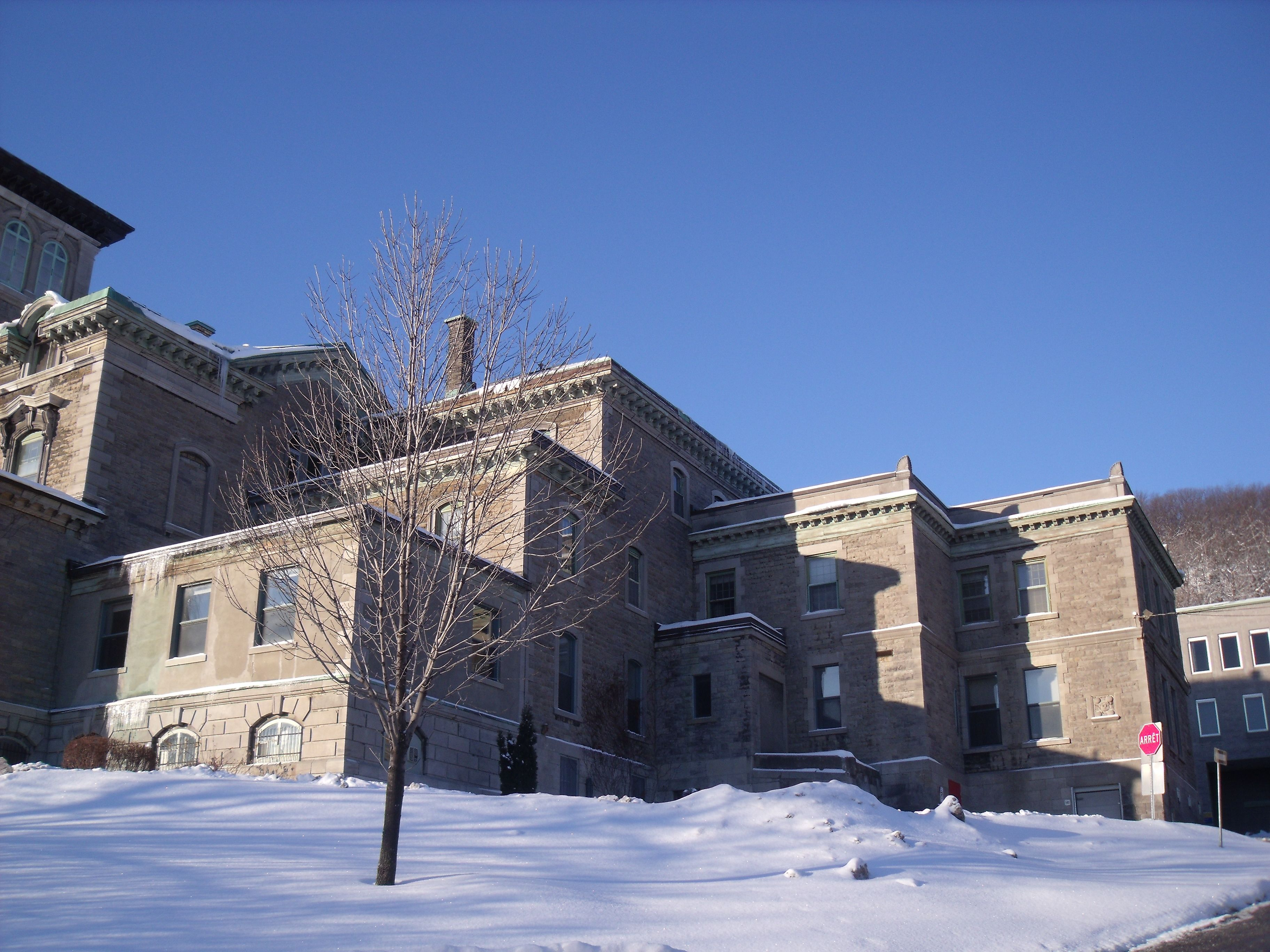 Servants' Quarters, Hugh Allan House, called Ravenscrag (1863), 835-1025 Pine Avenue West, Montreal, Quebec, Canada.